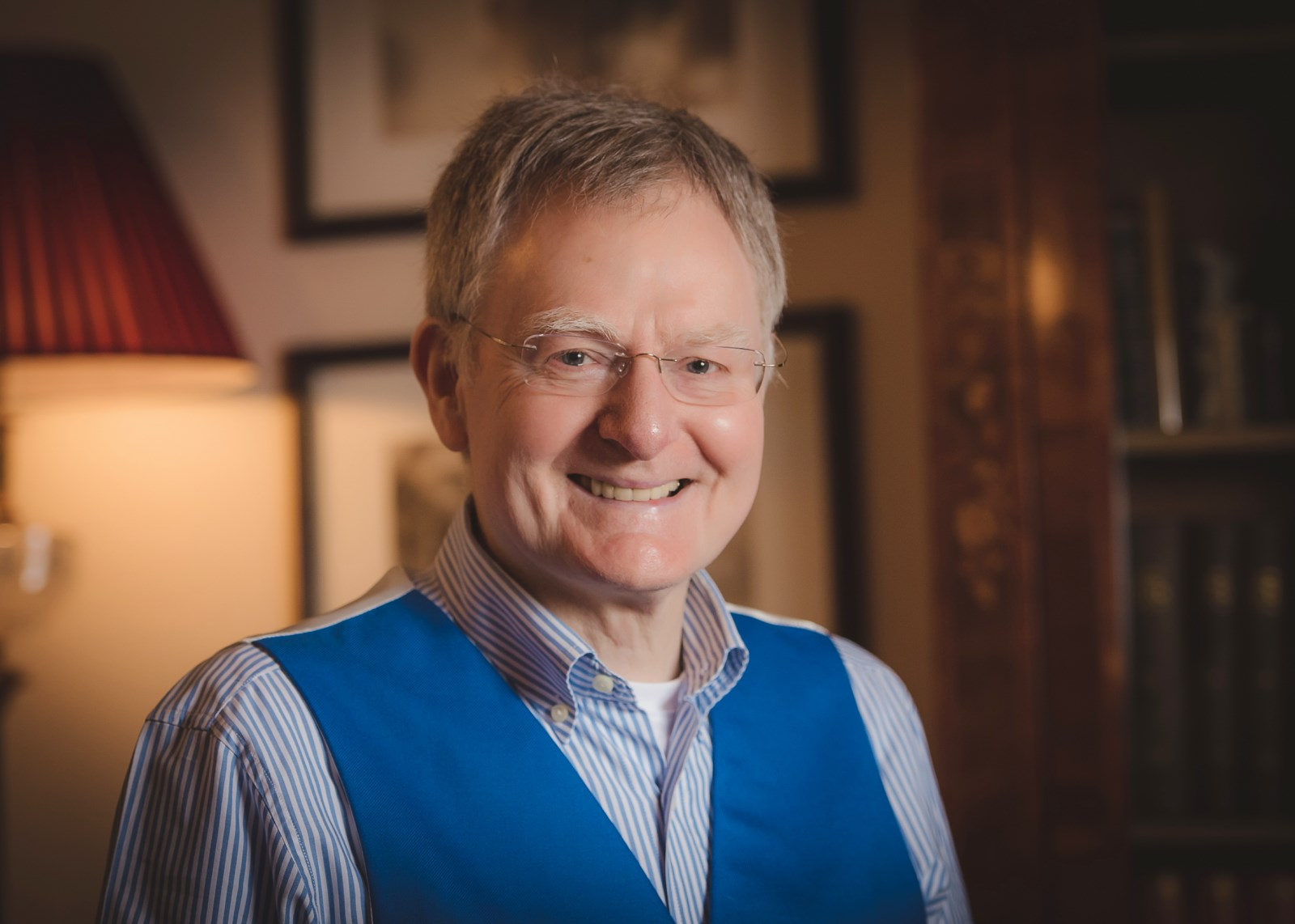 Picture of Alexander Leitch, Baron Leitch